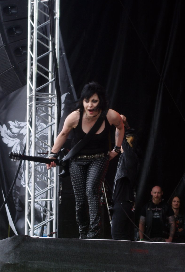 Joan Jett and The Blackhearts at Sweden Rock 2011.